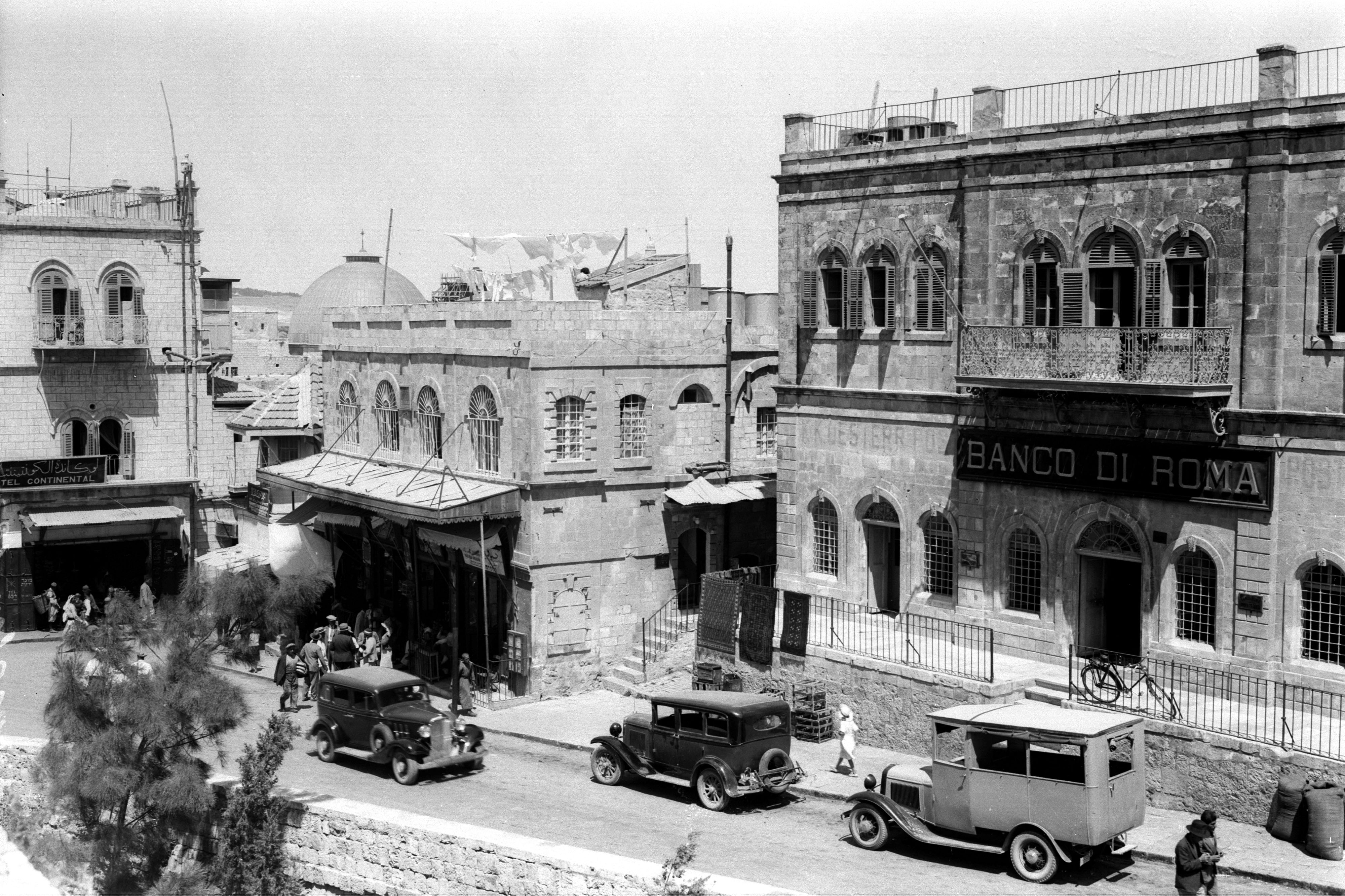 THE BANCO DI ROMA IN JERUSALEM. ה - BANCO DI ROMA בירושלים.